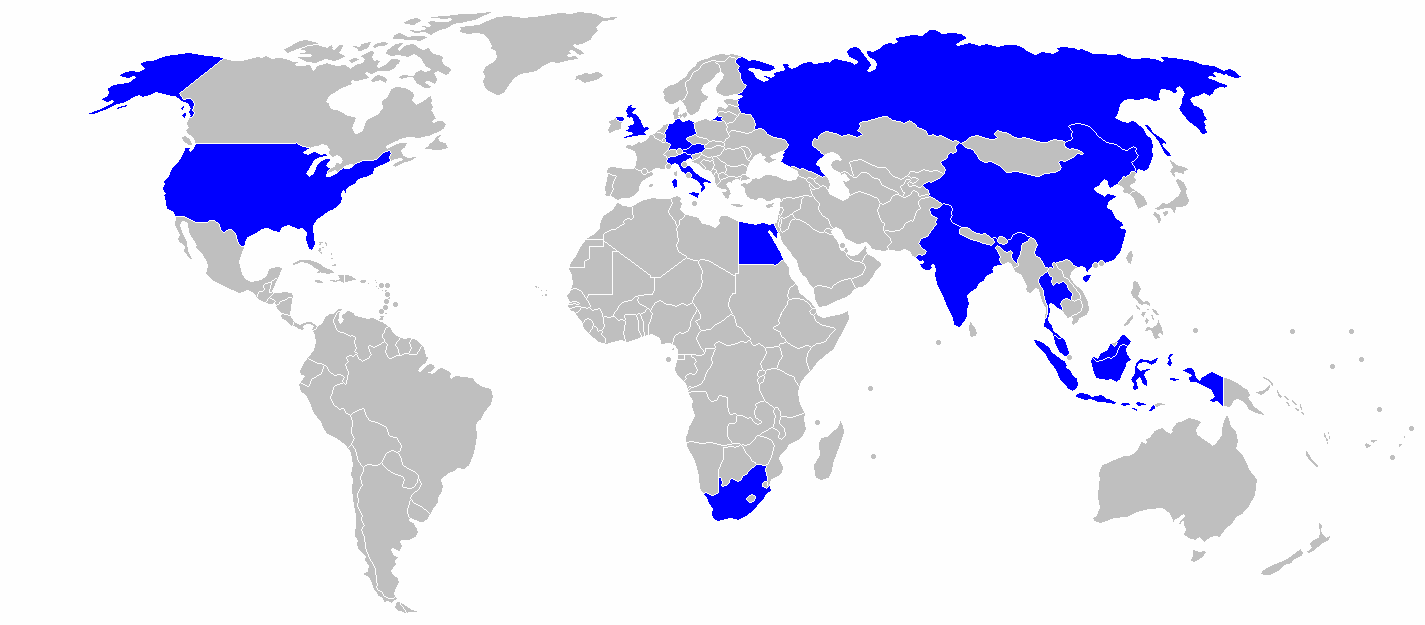 World locations of BMW Group factories and facilities